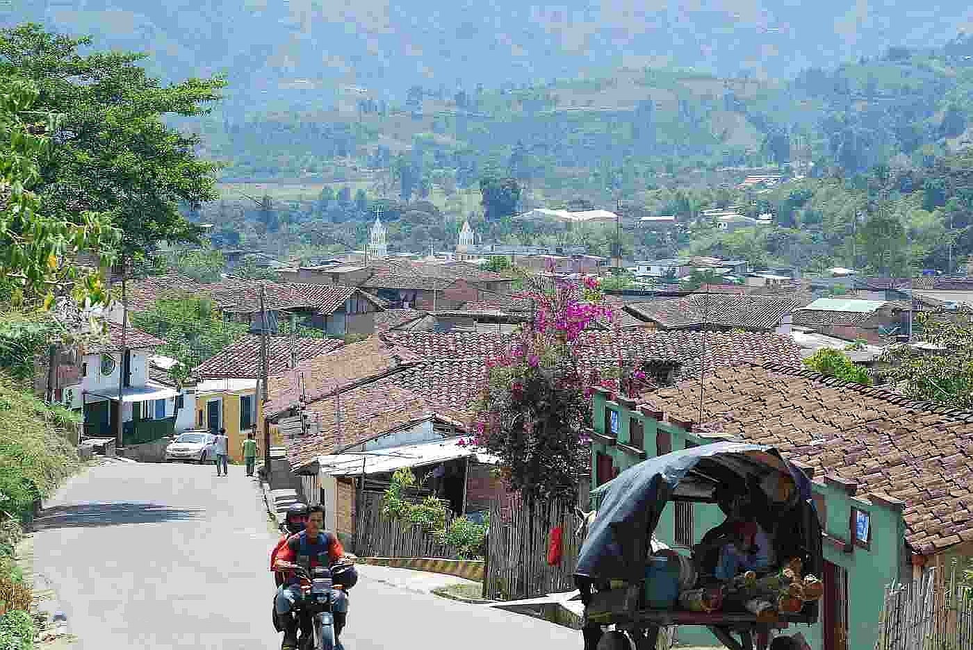 San Agustin mountain village, Colombia.